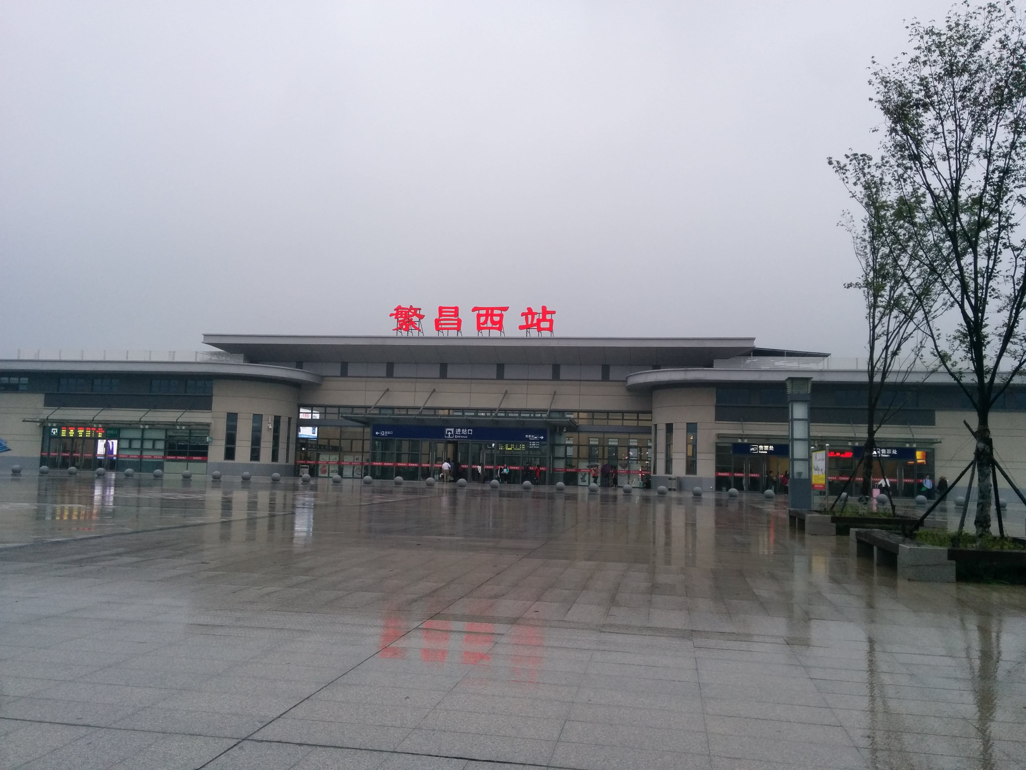 Fanchangxi Railway Station